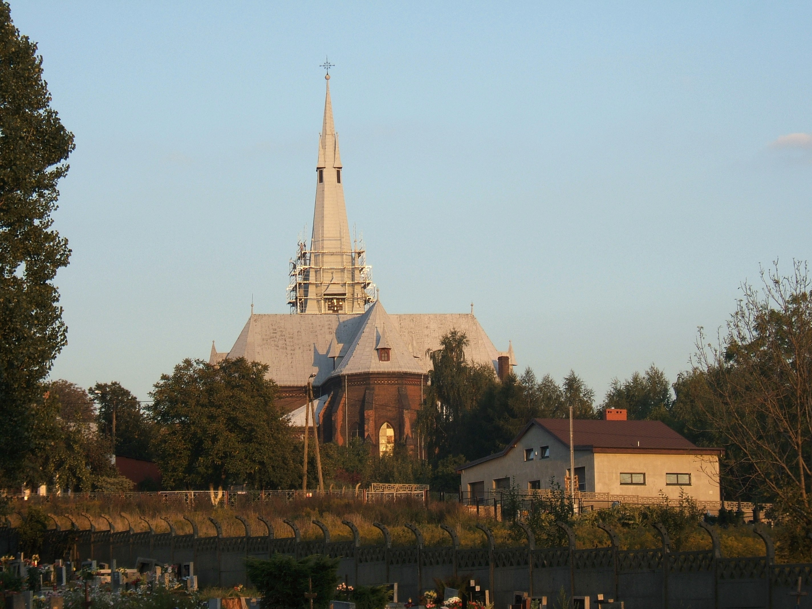 St. Mary Magdalene's Church in Chorzów Stary.